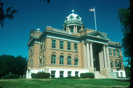 Front of the La Moure County Courthouse in LaMoure, North Dakota, United States. Built in 1907, it is listed on the National Register of Historic Places.